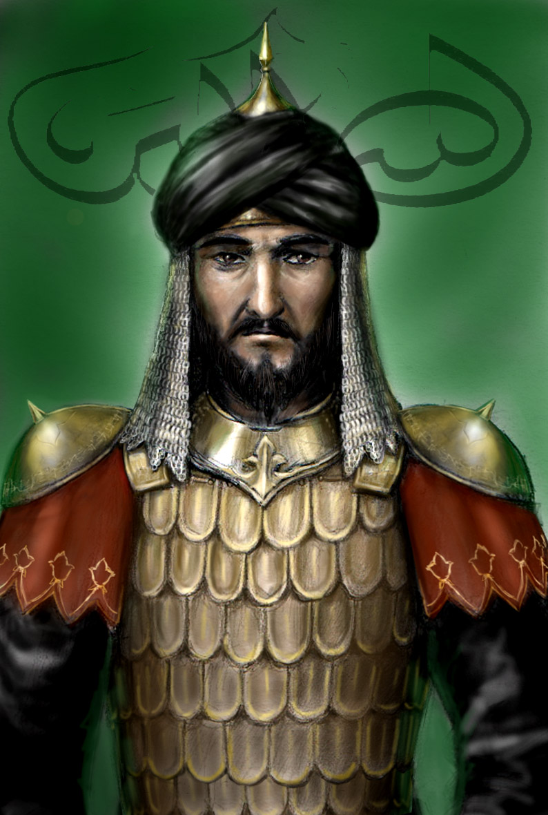 Salah ed-Din (Saladin), the Kurdish warlord, Sultan, unifier of Islam and and leader of the Arab armies that recovered Jerusalem from the Crusaders.